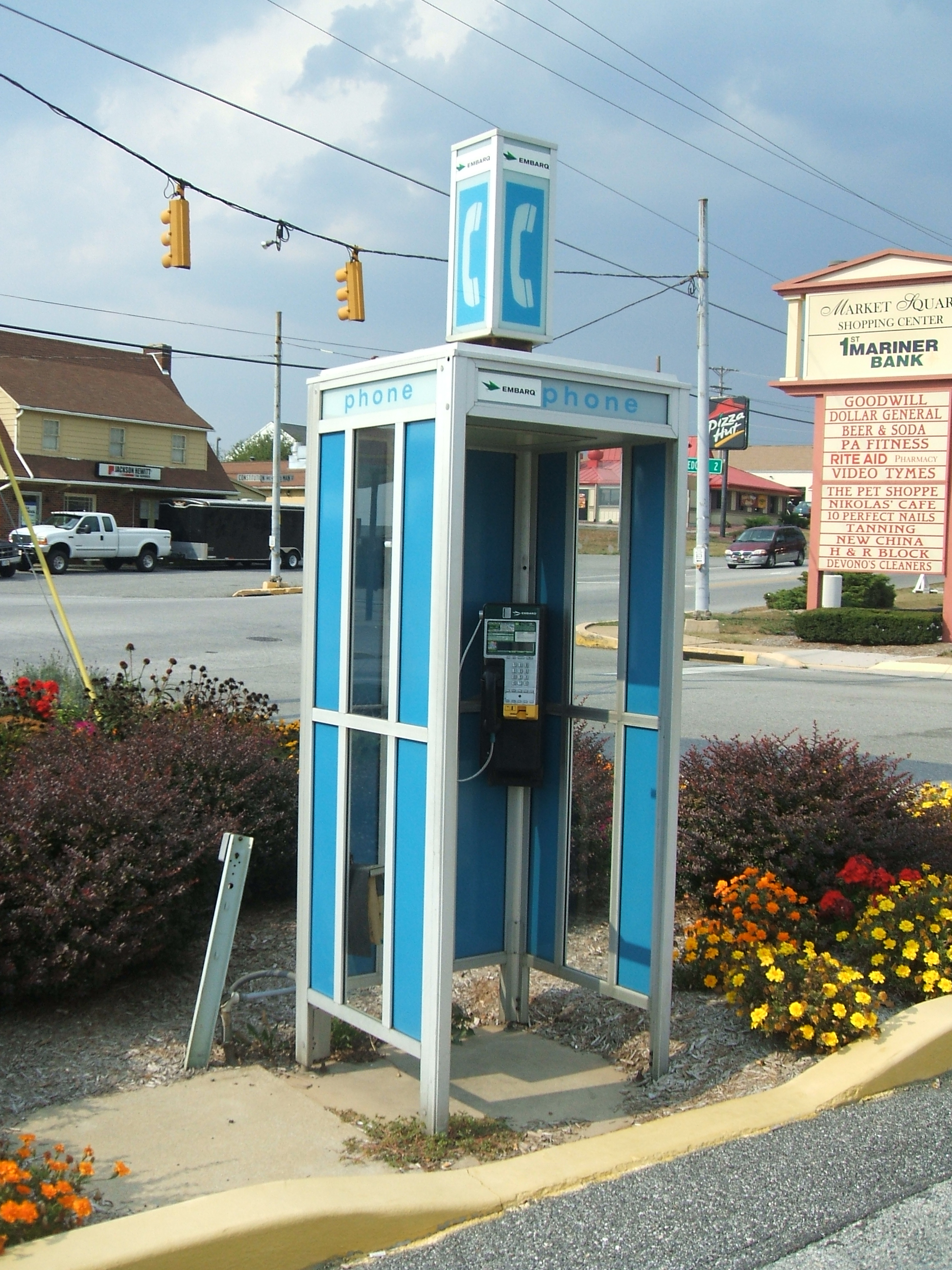 Embarq telephone booth located in the Marketing Square Shopping Center off Truck Route West 851 in Shrewsbury, PA. It was shot on October 9, 2007 by Mary Murchison-Edwords.